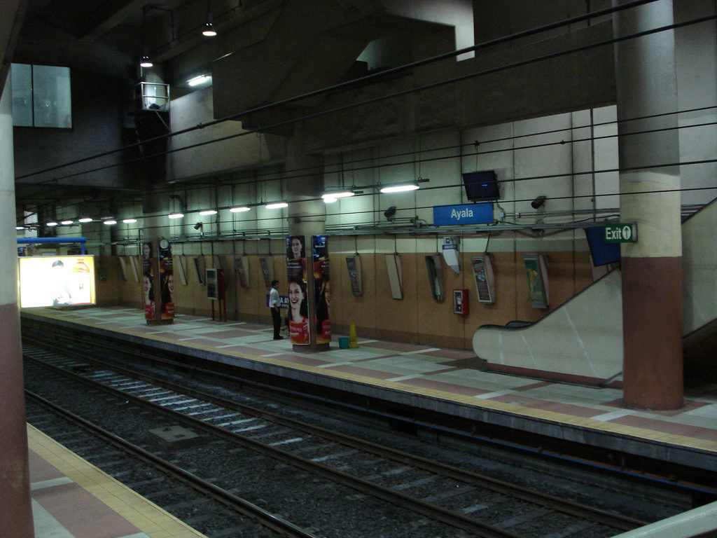 Platform area of MRT-3 Ayala Station